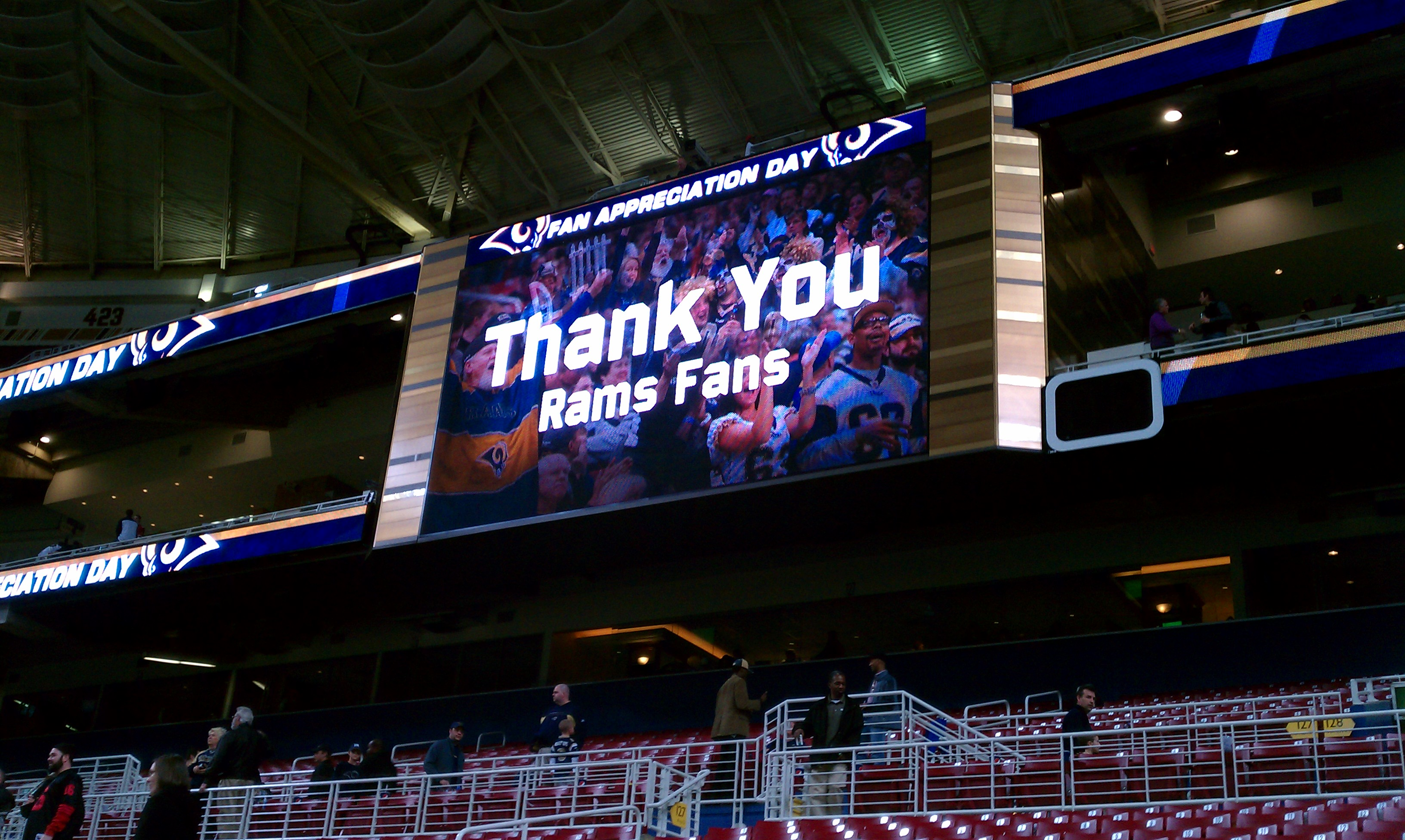 Taken 1/1/2012